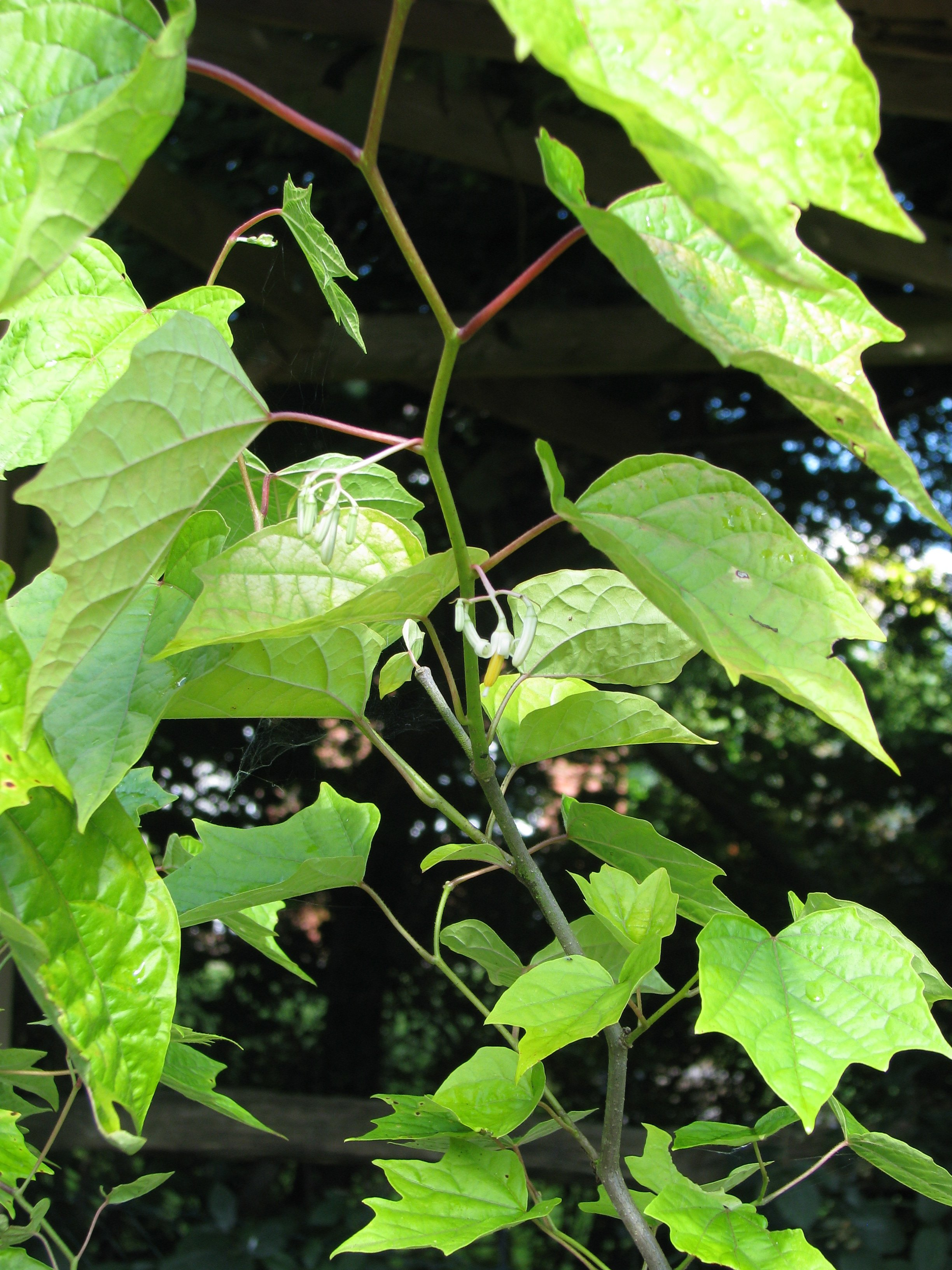 The stock plant at Pool Meadow is a neat little tree now but has never flowered, so it's been nice to see the offspring getting their act together so quickly here.